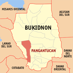 Map of the Bukidnon showing the location of Pangantucan